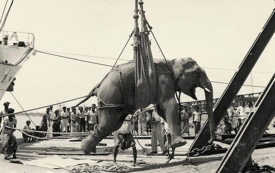 Elephant loading in Chittagong port 1960